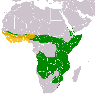 Distribution of the genus Mungos. Banded mongoose is green and Gambian mongoose is yellow. Derived from Gambian_Mongoose_area.png and Banded_Mongoose_area.png. Green: Mungos mungo Yellow: Mungos gambianus